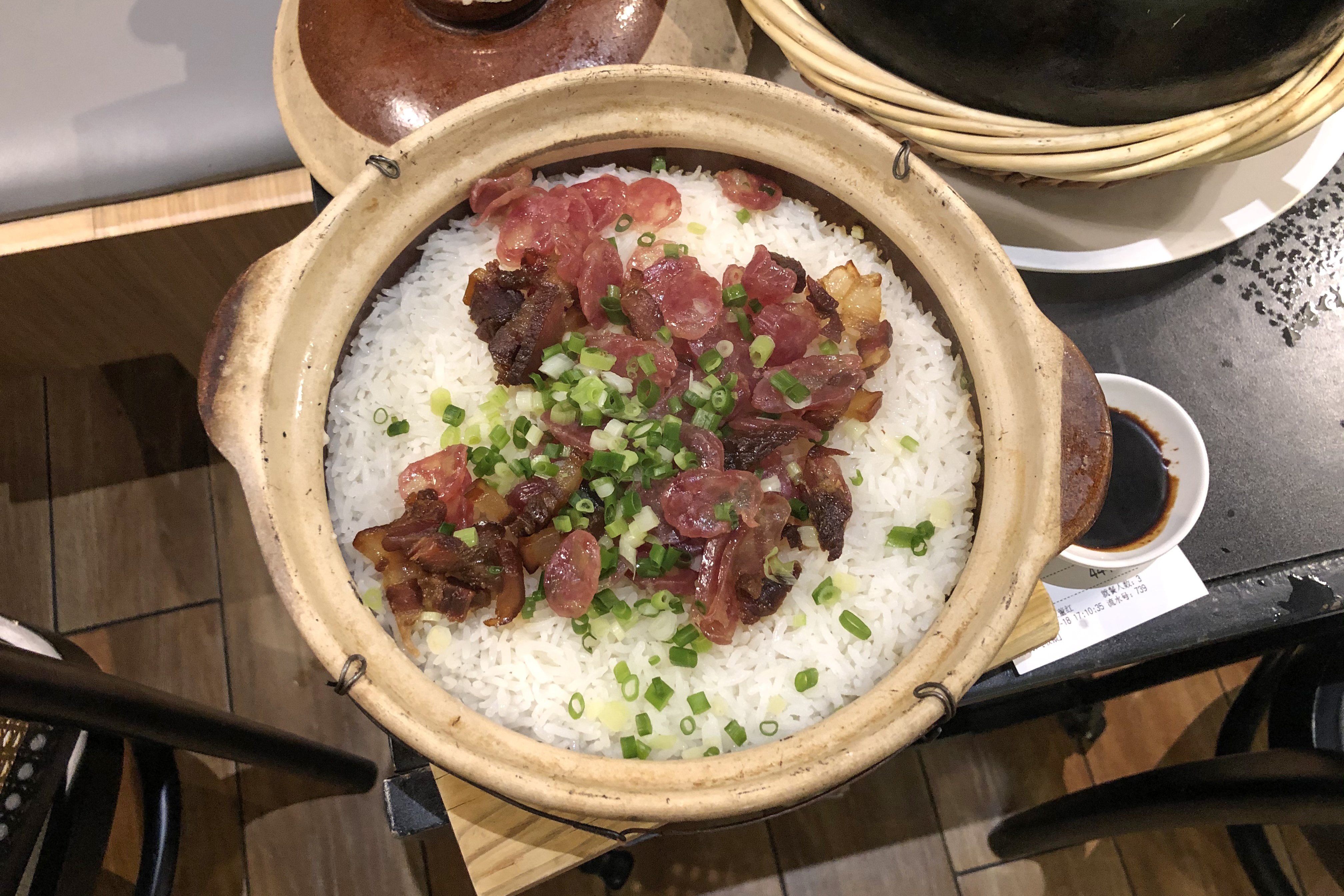 Cantonese cuisine in Beijing... In fact, this is already a bigger size.